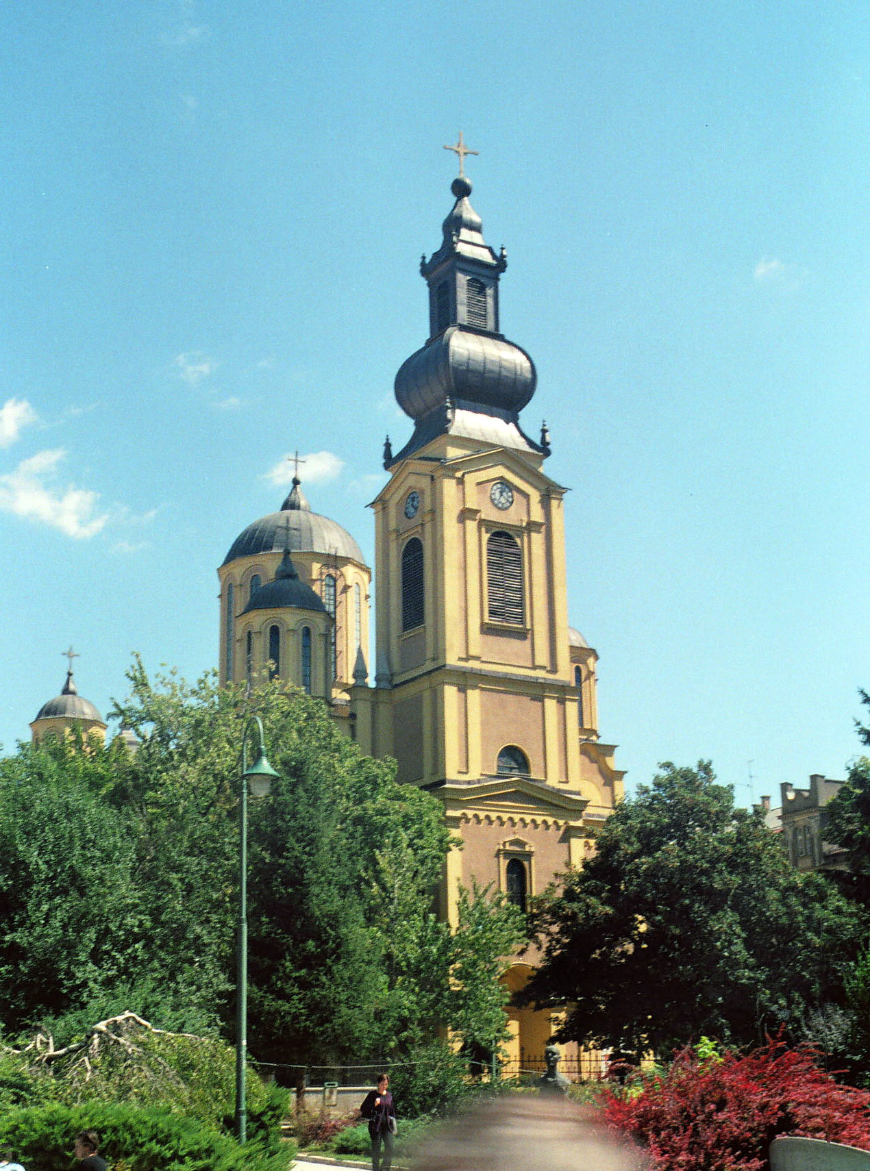 The serbian orthodox church in Sarajevo.